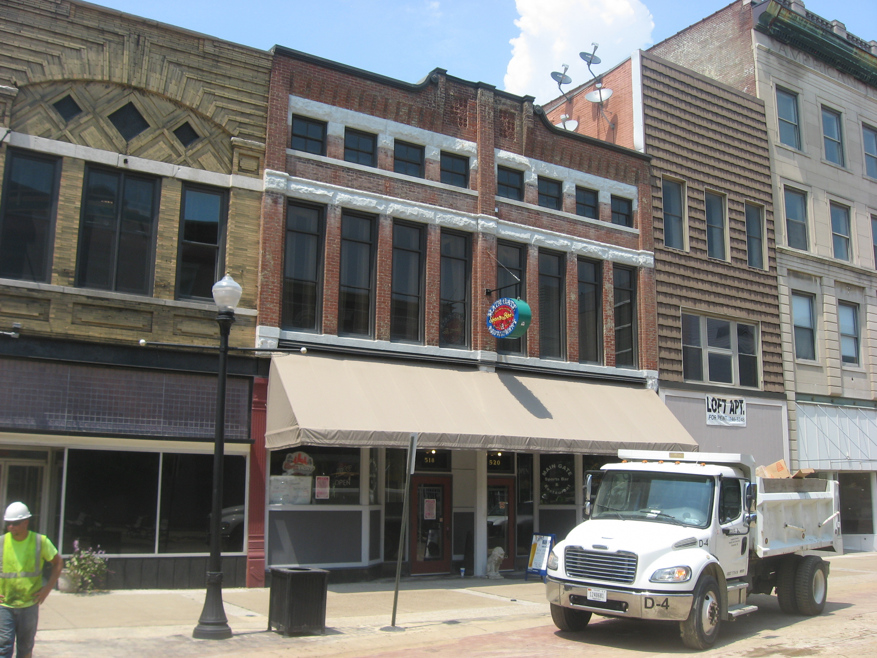 Front of the Harding and Miller Music Company, located at 518-520 Main Street in Evansville, Indiana, United States. Built in 1891, it is listed on the National Register of Historic Places.